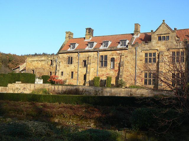 Mount Grace Charterhouse This was part of the 'lay' section of the abbey, housing kitchen, brewhouse and bakehouse. As it was more readily reused after the dissolution, it has survived.